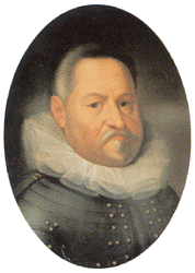 Jan VI, Count of Nassau